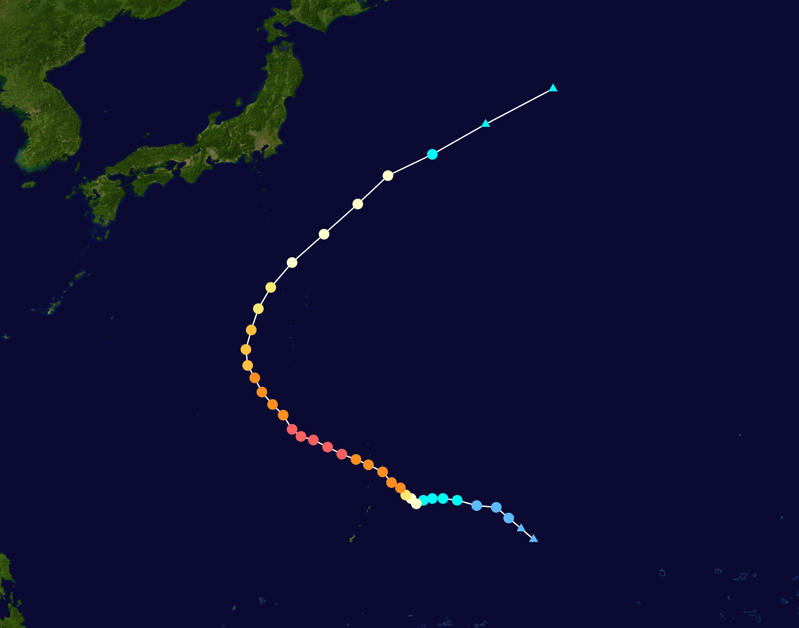 Track map of Typhoon Choi-wan of the 2009 Pacific typhoon season. The points show the location of the storm at 6-hour intervals. The colour represents the storm's maximum sustained wind speeds as classified in the Saffir–Simpson scale (see below), and the shape of the data points represent the nature of the storm, according to the legend below. Saffir–Simpson scale Tropical depression≤38 mph≤62 km/h Category 3111–129 mph178–208 km/h Tropical storm39–73 mph63–118 km/h Category 4130–156 mph209–251 km/h Category 174–95 mph119–153 km/h Category 5≥157 mph≥252 km/h Category 296–110 mph154–177 km/h Unknown Storm type Tropical cyclone Subtropical cyclone Extratropical cyclone / Remnant low / Tropical disturbance / Monsoon depression